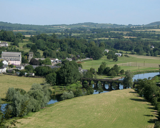 Inistioge from Sandford Castle The lovely village of Inistioge viewed from the ruin of Sandford Castle on the hill south of the village.